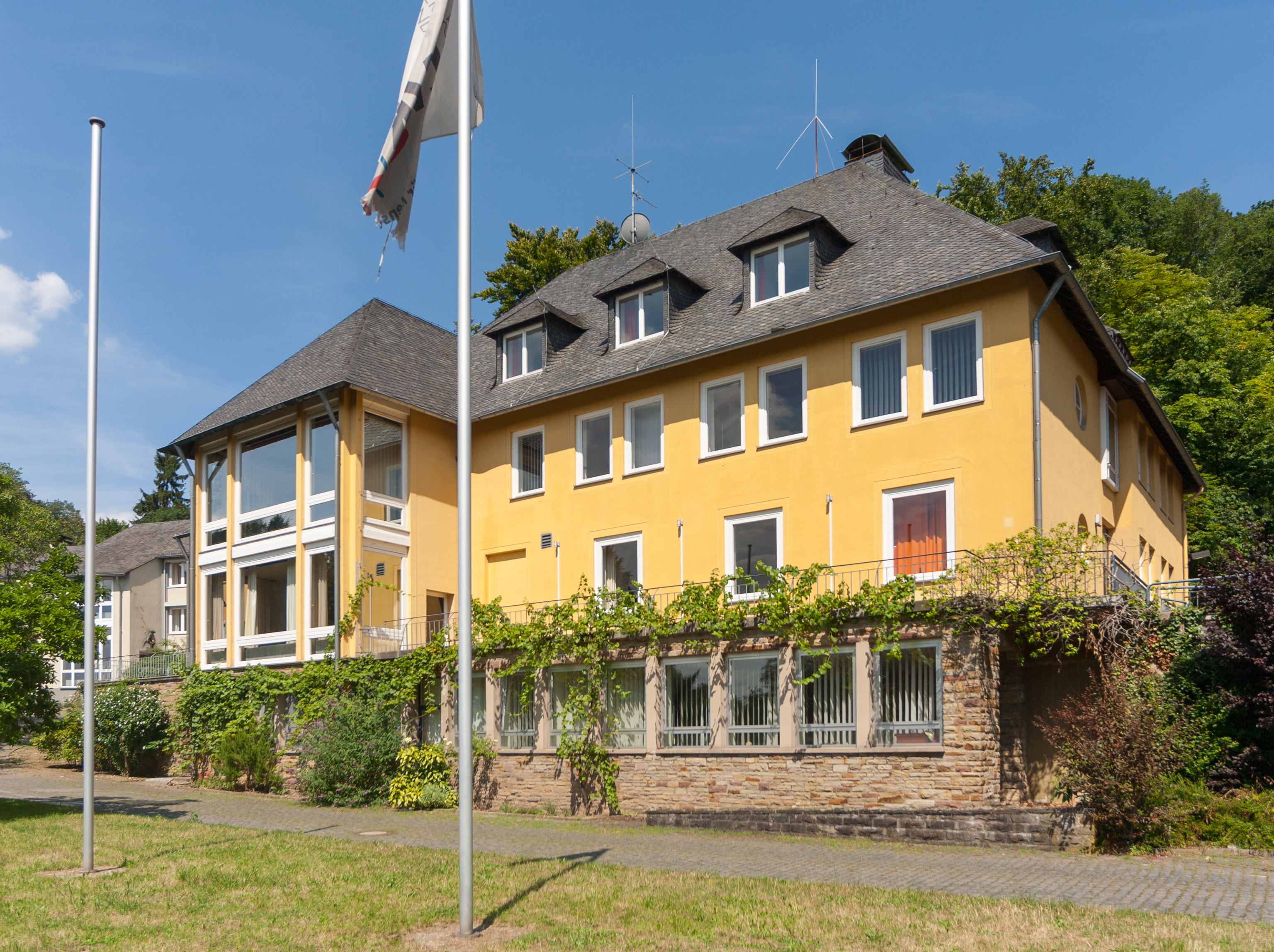 Former Jugendhof Rheinland: Haus Heisterberg, Königswinter-Niederdollendorf